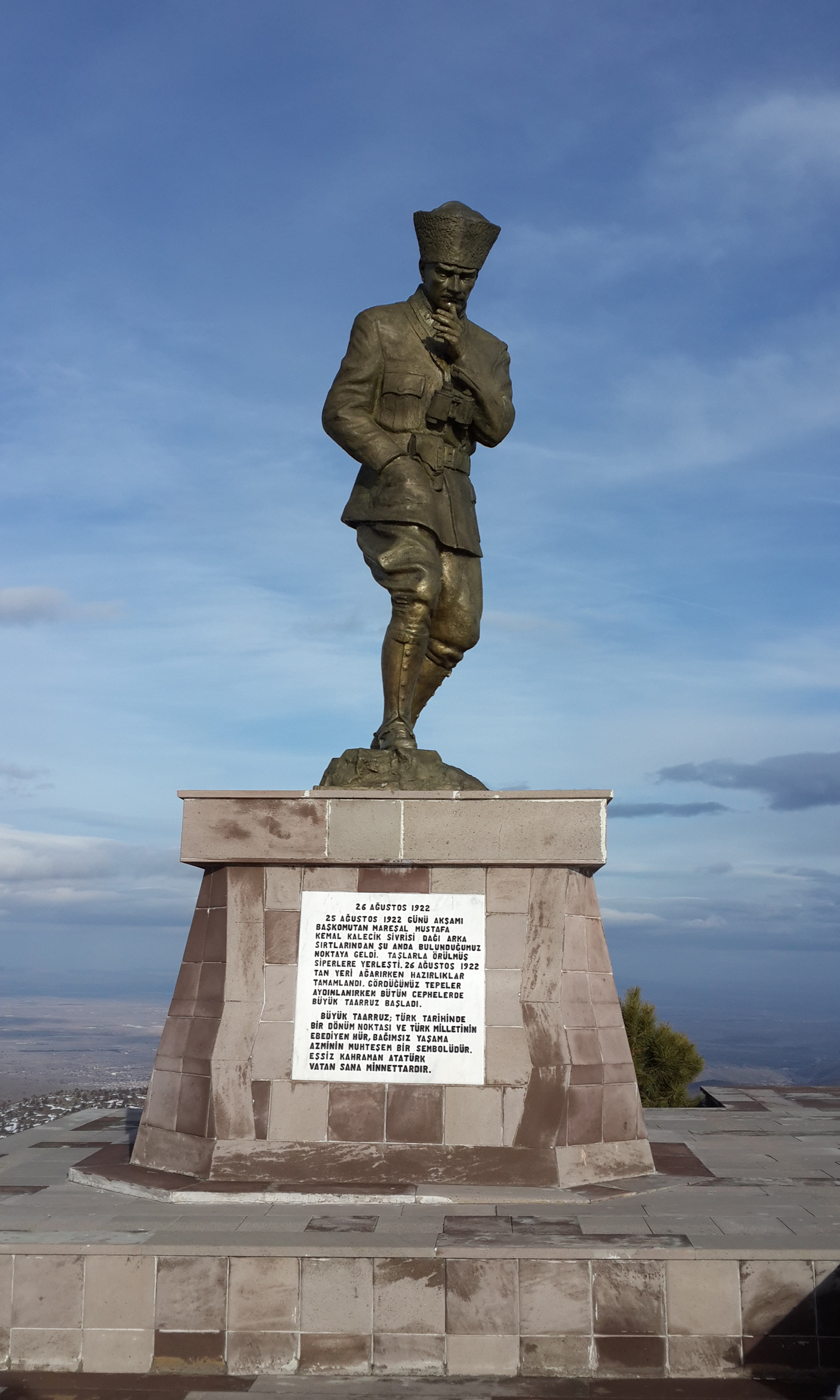 Atatürk statue at Kocatepe Monument. Kocatepe, Afyon is the place that Great Offensive against Greek Army started by Commander in Chief, Atatürk in August 1922.